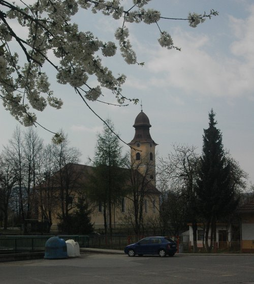 Church, Nováky, Slovakia